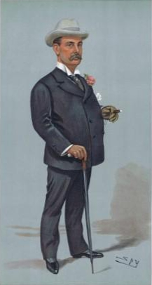 Caricature of Sir Thomas Salter Pyne] CSI (1860-1921). Caption reads: "Afghan engineering".